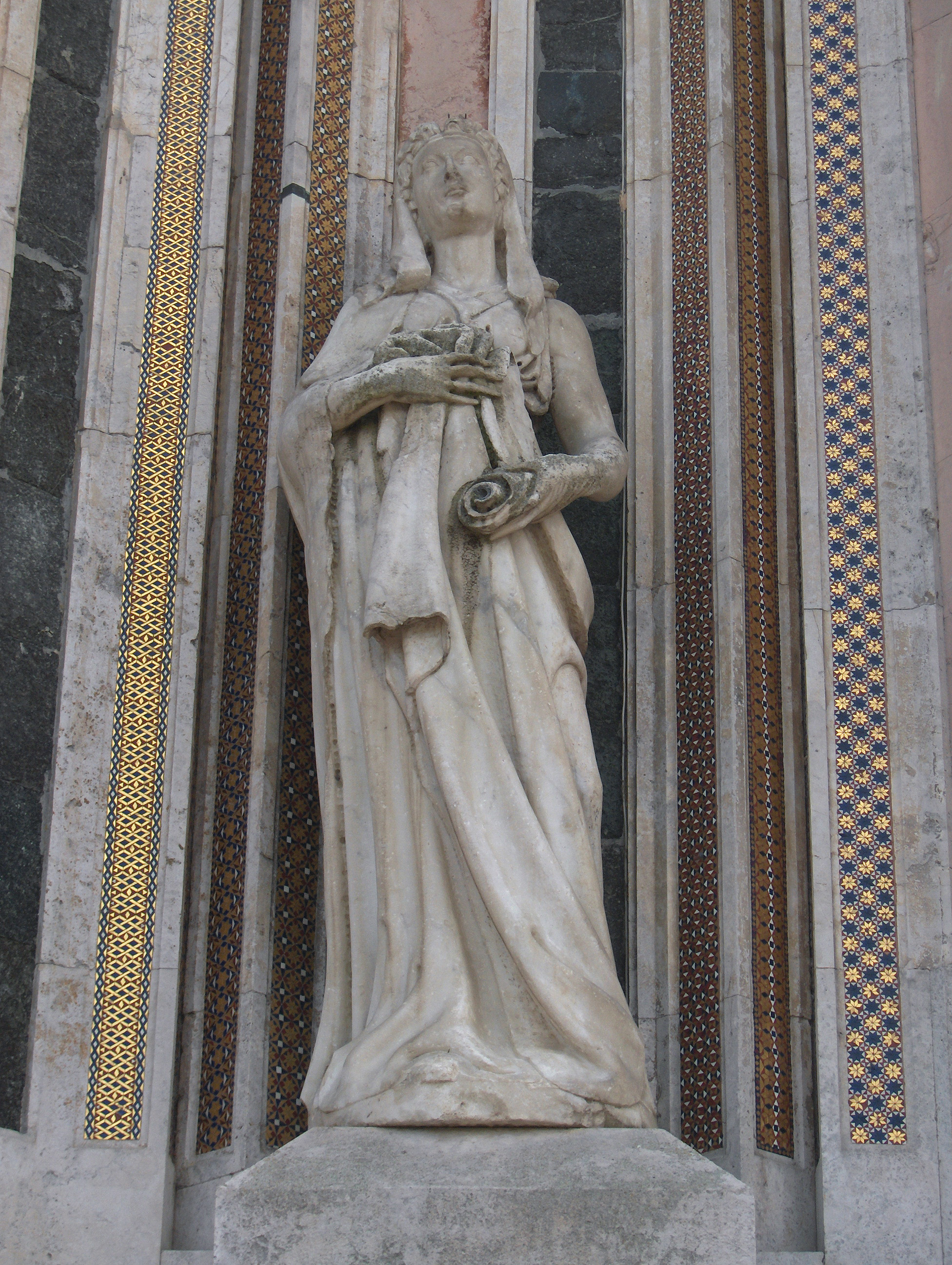 Eritrean Sibyl (1456) by Antonio Federighi at the cathedral of Orvieto, Italy